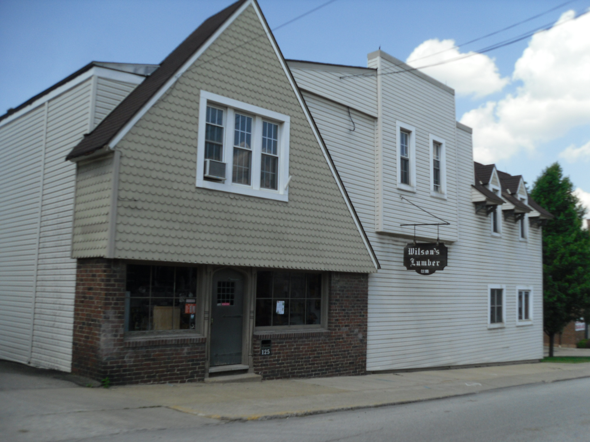 New Wilmington, Pennsylvania